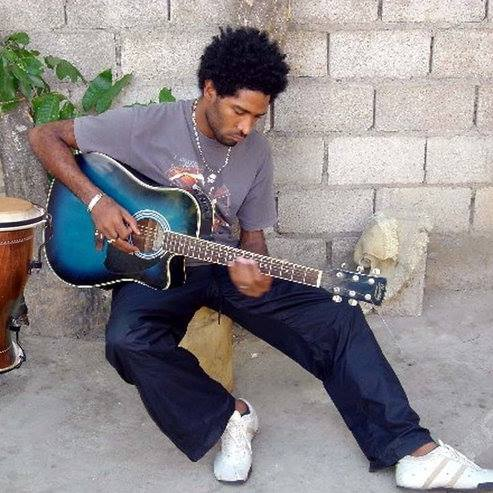 Photo took by Golden Reggae in 2006